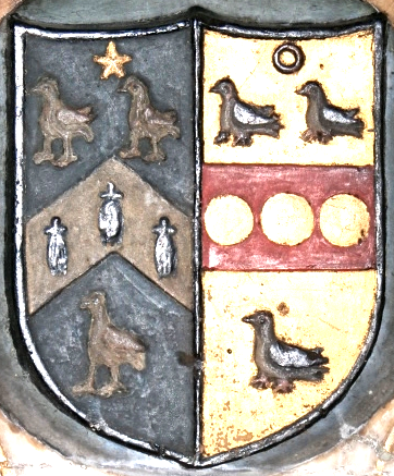 Arms of Thomas Horwood (1600-1658) of Barnstaple in Devon, twice Mayor of Barnstaple, in in 1640 and 1653. He founded an almshouse in Church Lane, Barnstaple. detail from his mural monument survives in St Peter's Church, Barnstaple. Arms: Sable, a chevron counter-ermine between three moorcocks or a mullet for difference (Horwood) impaling Or, on a fesse between three martlets gules as many bezants an annulet for difference (wife's paternal arms, unknown family) (Source: Chanter, J.R., Memorials Descriptive and Historical, of the Church of St Peter, Barnstaple, with its other ecclesiastical antiquities, and an account of the conventual church of St Mary Magdalene, recently discovered. Barnstaple, 1882. Includes appendix “Monumental Heraldry” by Rev. Sloane Sloane-Evans, 1882, p.151)